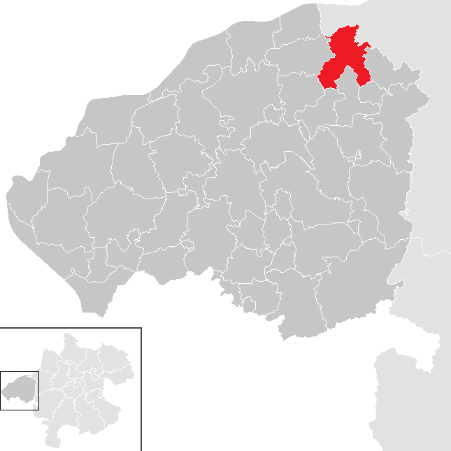 district Braunau am Inn